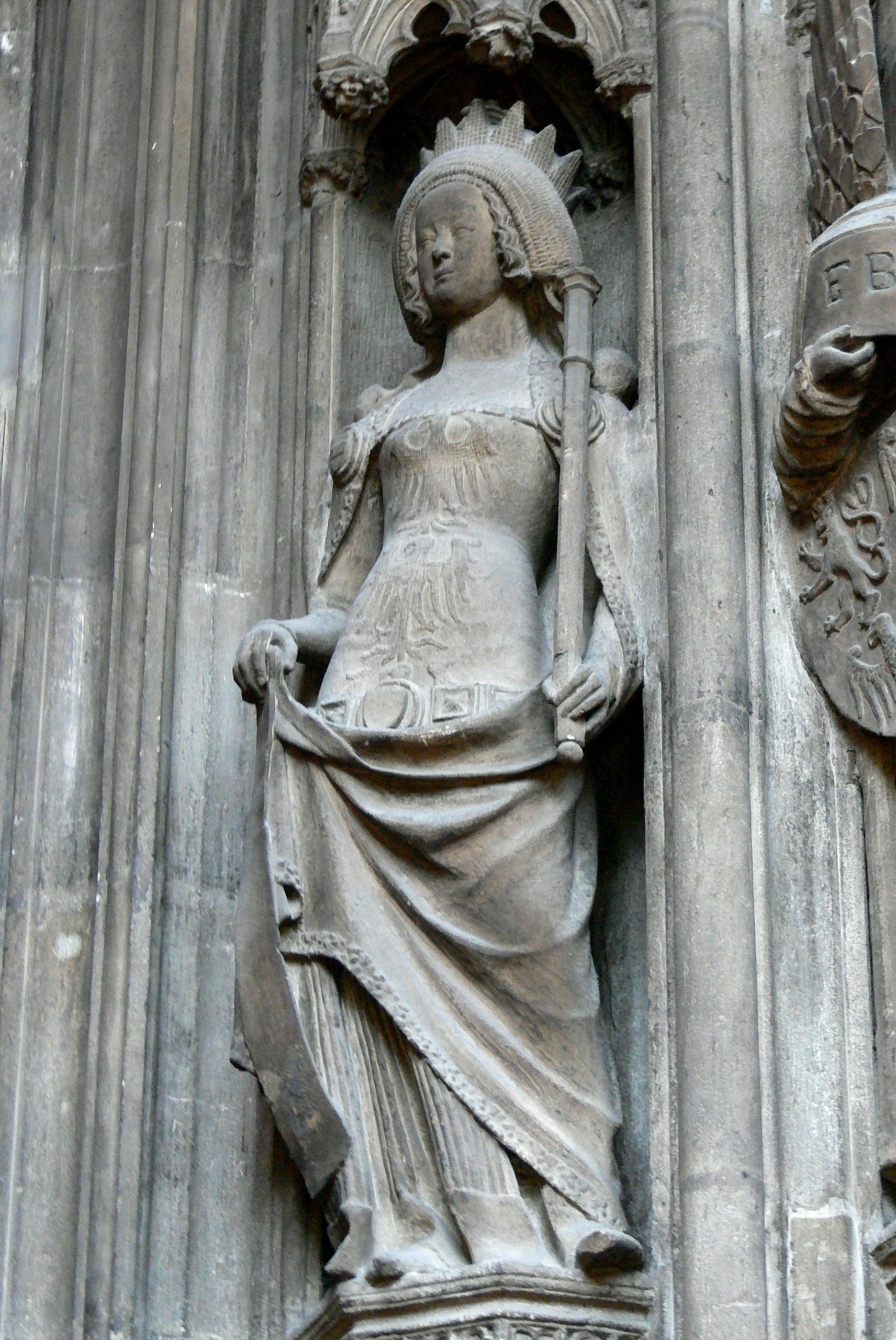 St. Stephen's Cathedral, Vienna. Bishop's gate: Statue of Catherine of Bohemia, wife of Rudolf IV, duke of Austria ( 14th century ).